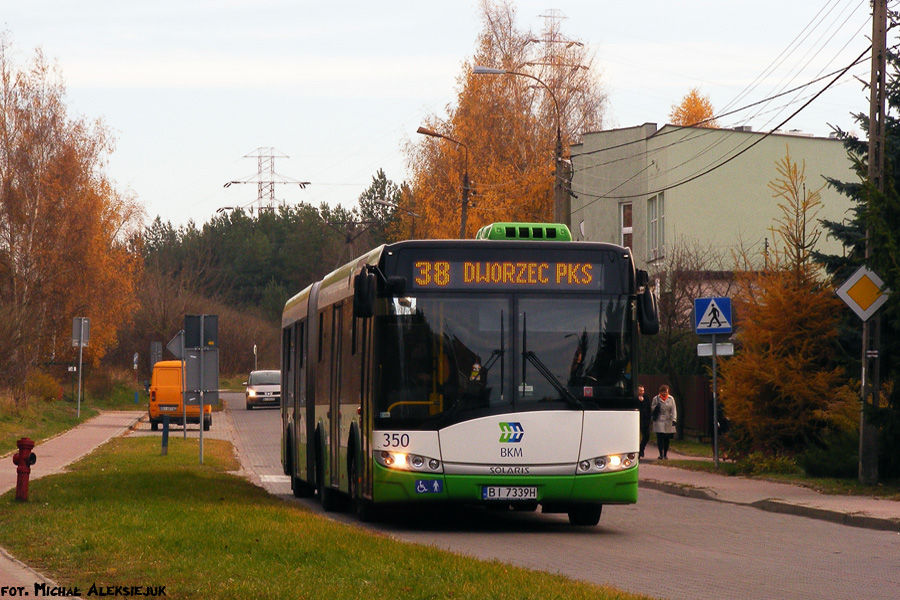 Solaris Urbino 18 W29 bus (#350) in Białystok, Poland. Built 2010. KPKM Białystok operator.